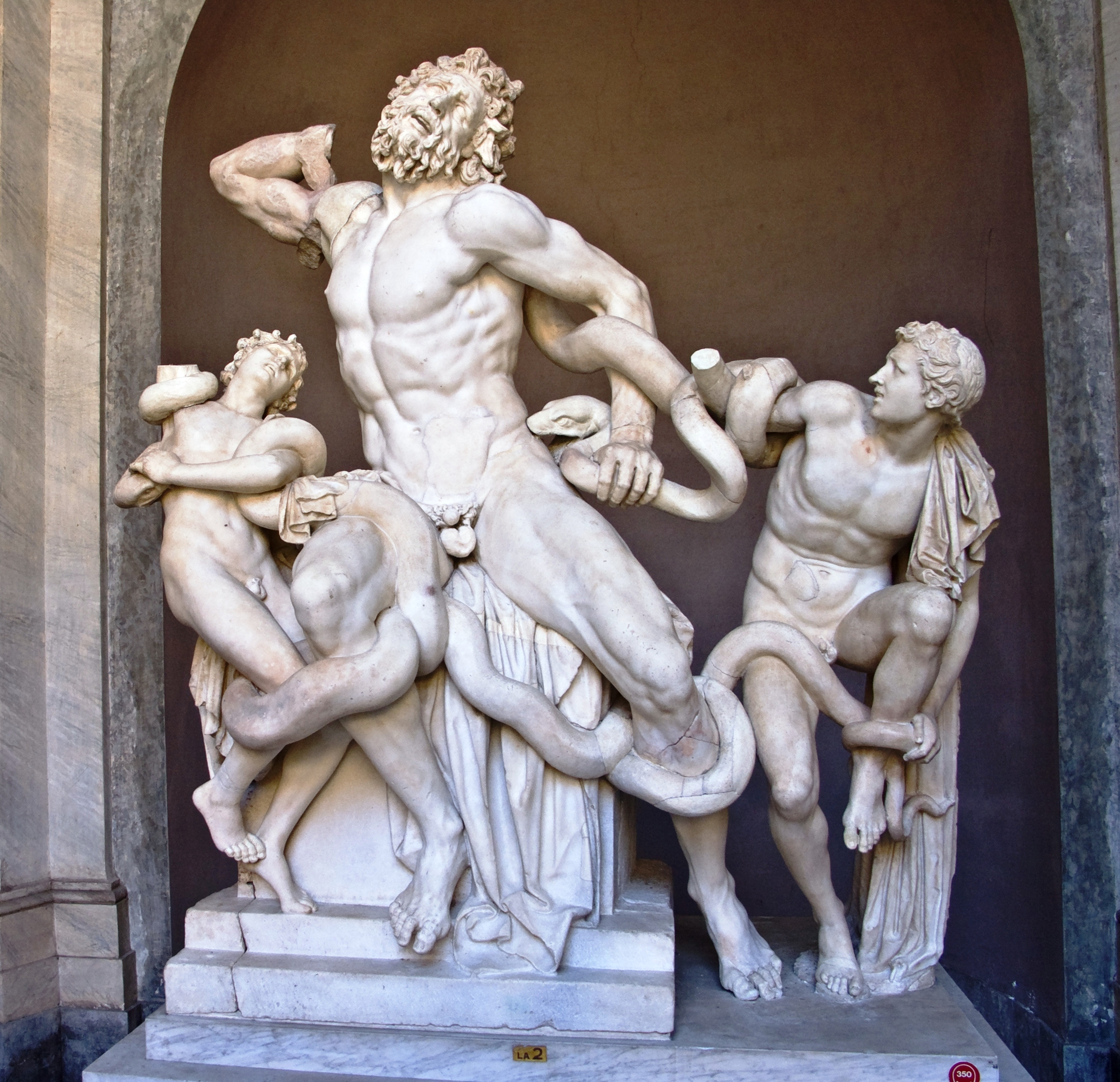 Laocoön and his sons, also known as the Laocoön Group. Marble, copy after an Hellenistic original from ca. 200 BC.